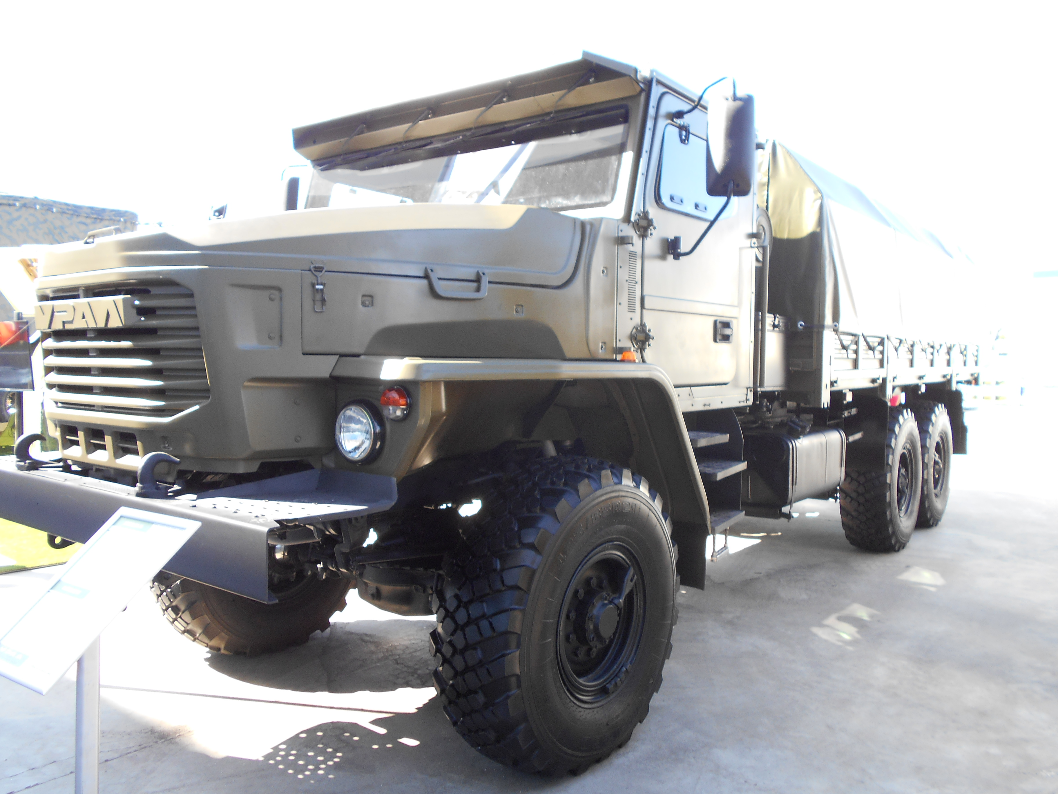 Ural-4320 Motovoz-M.